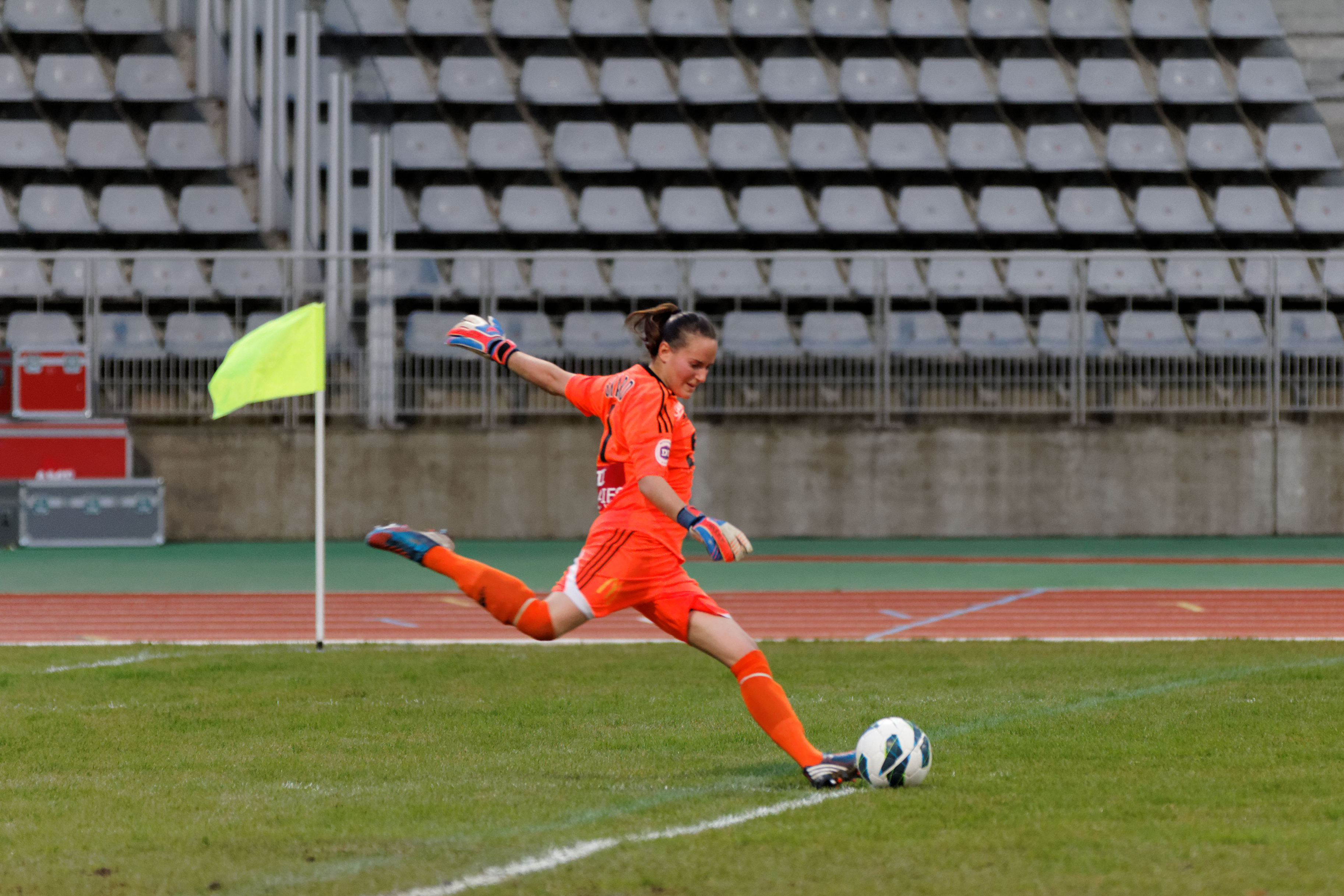 PSG-AS Saint-Étienne, december 16th, 2012. Saint-Étienne goalkeeper Méline Gérard takes a goal kick.